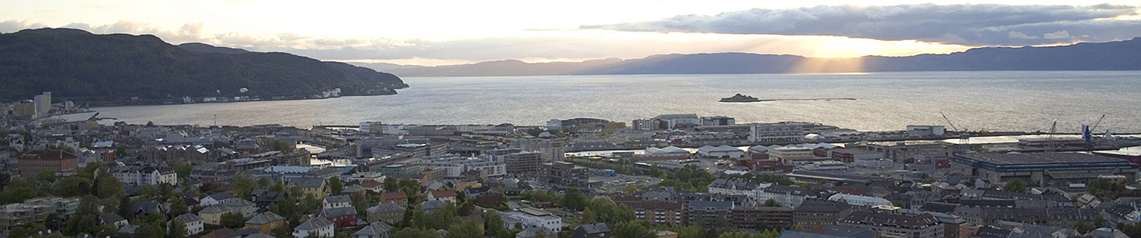 View of Trondheim, Norway, from Kuhaugen